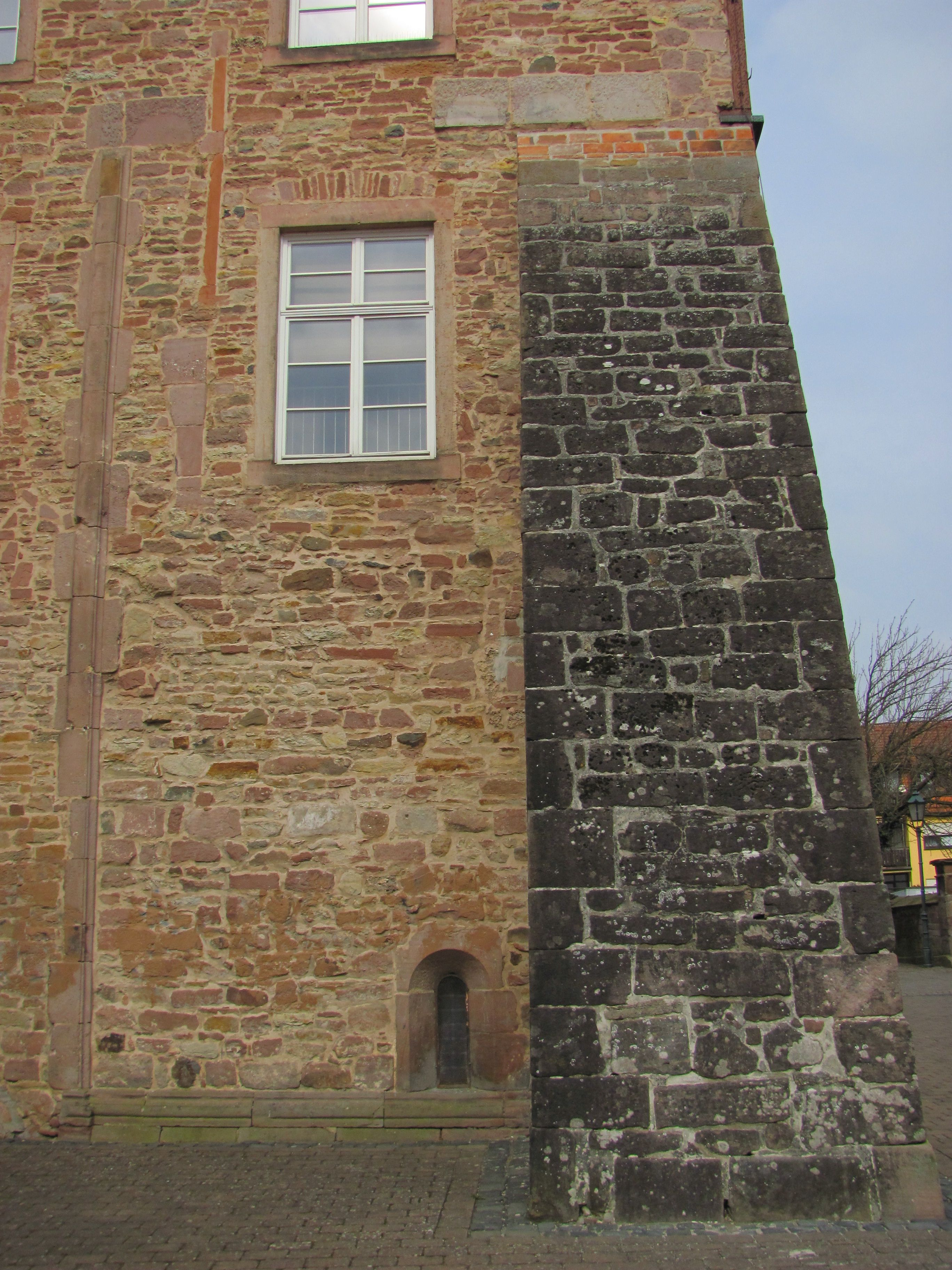 Schlüchtern Monastery